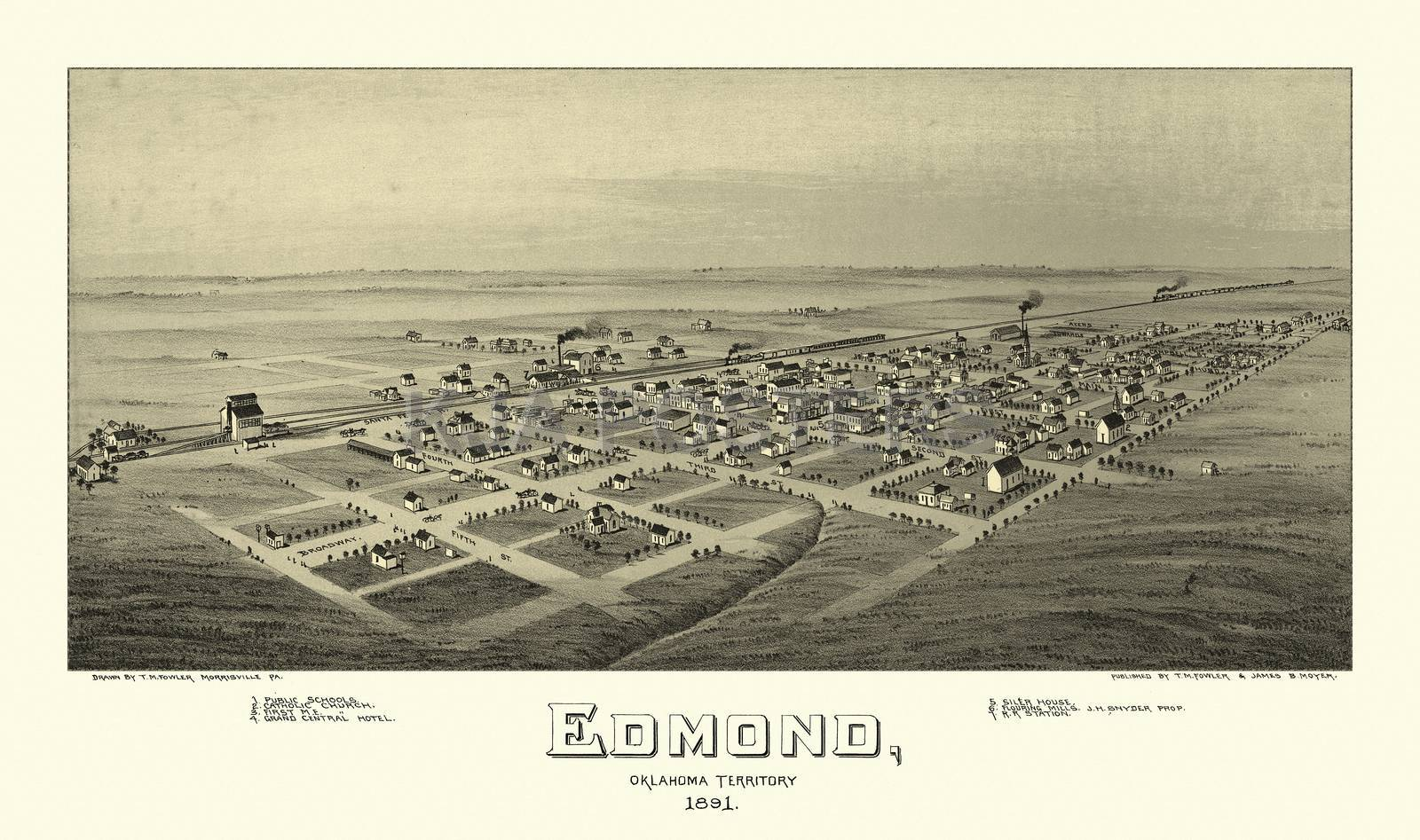 Edmond, Oklahoma Territory, 1891. Drawn by T.M. Fowler.